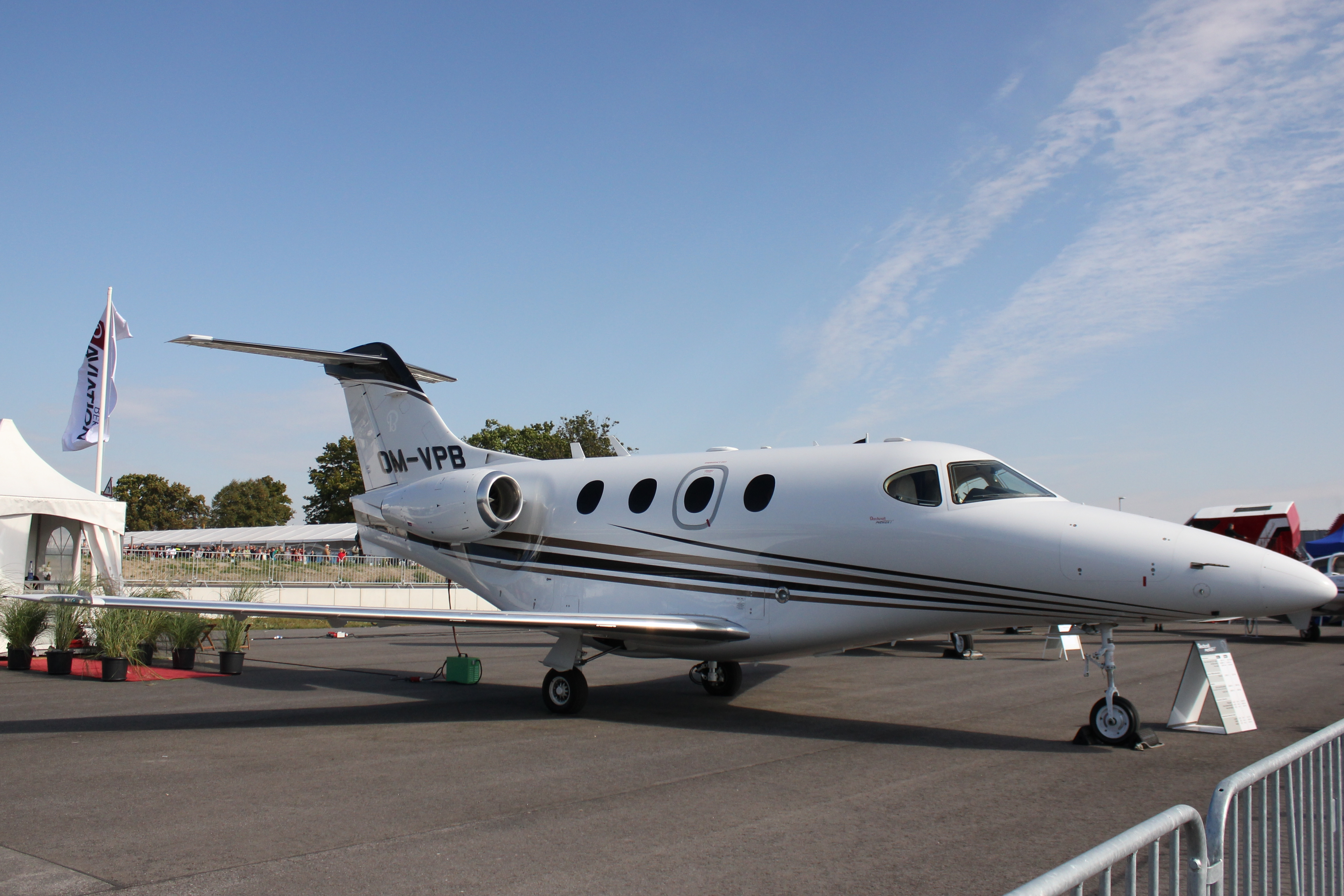 An Hawker Beechcraft 390 at the ILA (Berlin Air Show) 2012.